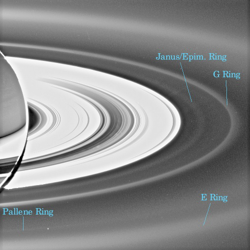 The outer Rings of Saturn seen back-illuminated by the Sun. Mosaic assembled from images taken by the Cassini-Huygens spacecraft.